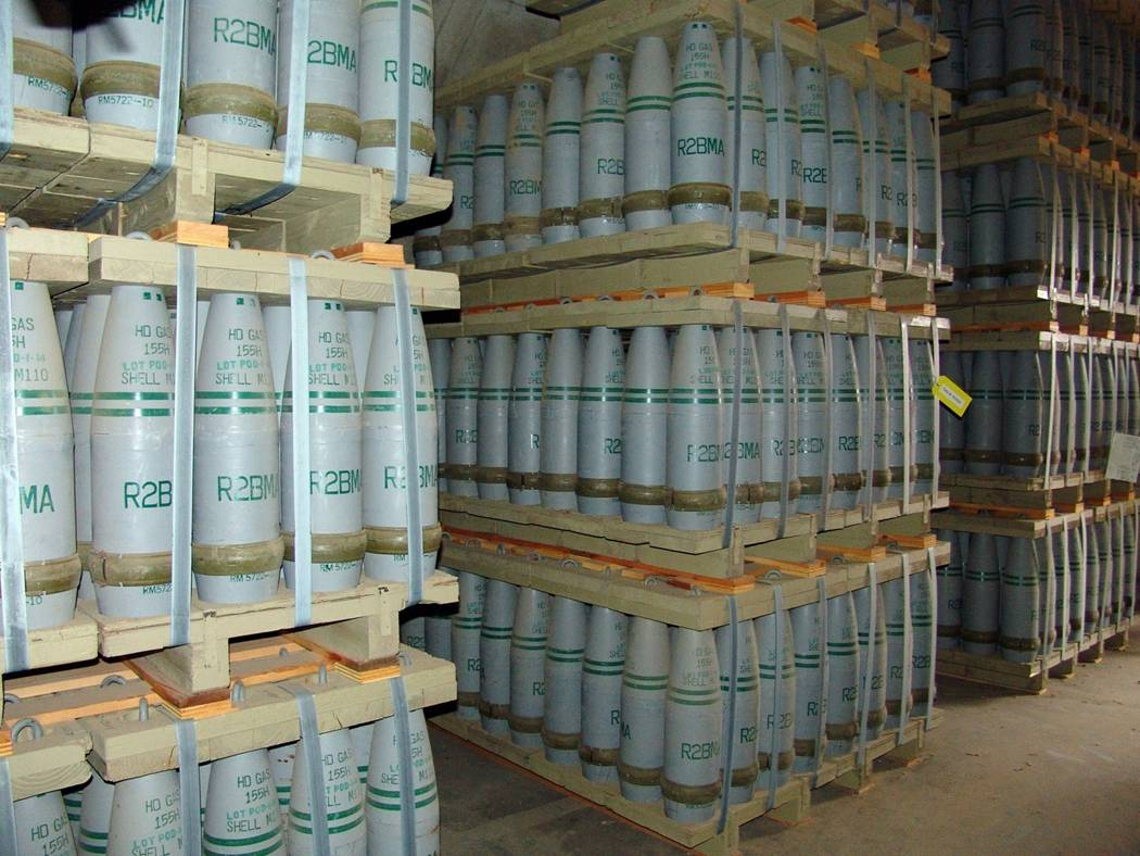 Pallets of 155 mm artillery shells containing "HD" [1] mustard gas at Pueblo chemical weapons storage facility in Colorado state, USA. Note the highly distinctive color coding scheme. The USA has been steadily destroying its entire stockpile of chemical weapons and will continue to do so until none remain.